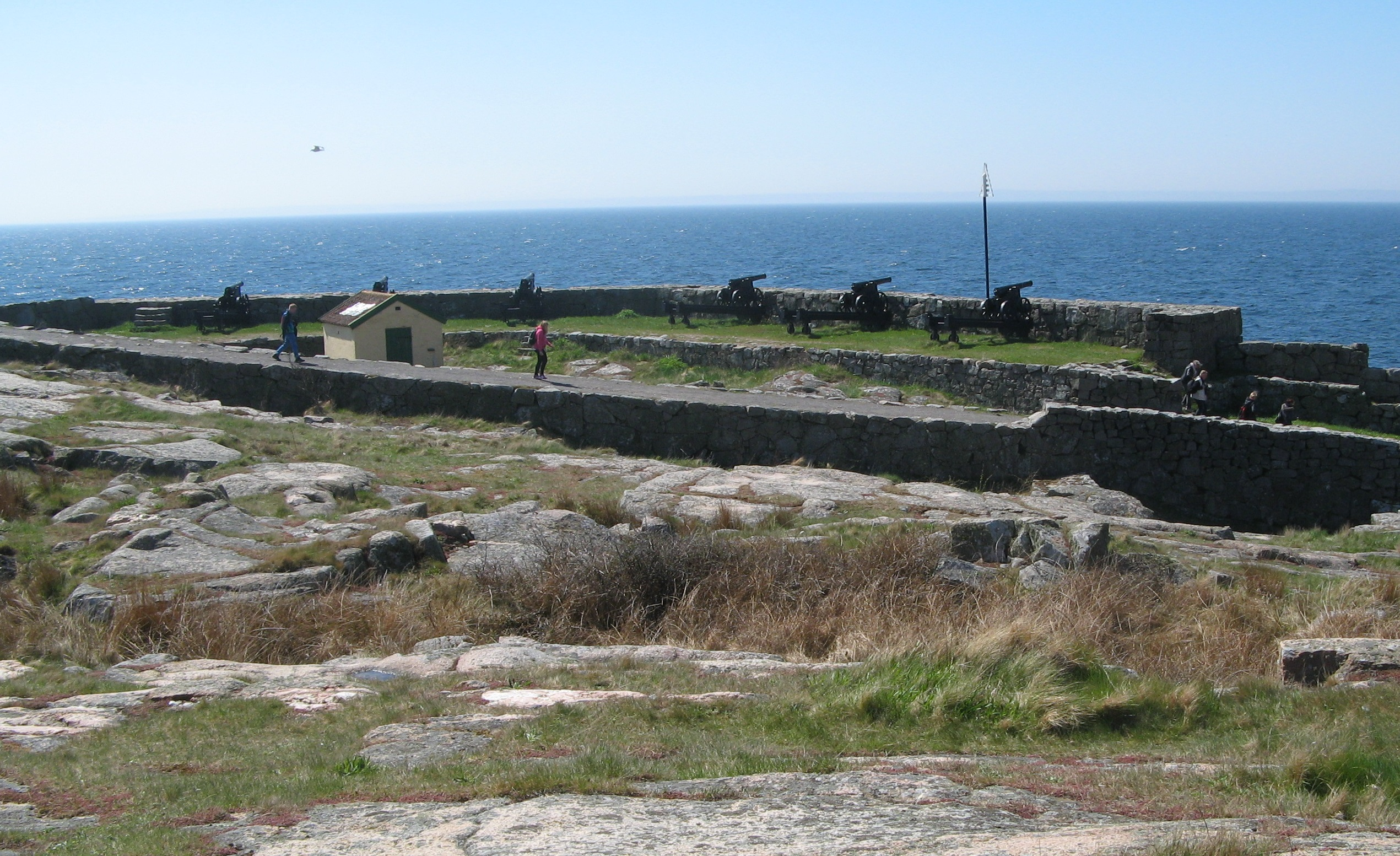 Christiansø, Kongens-Bastion of 1735